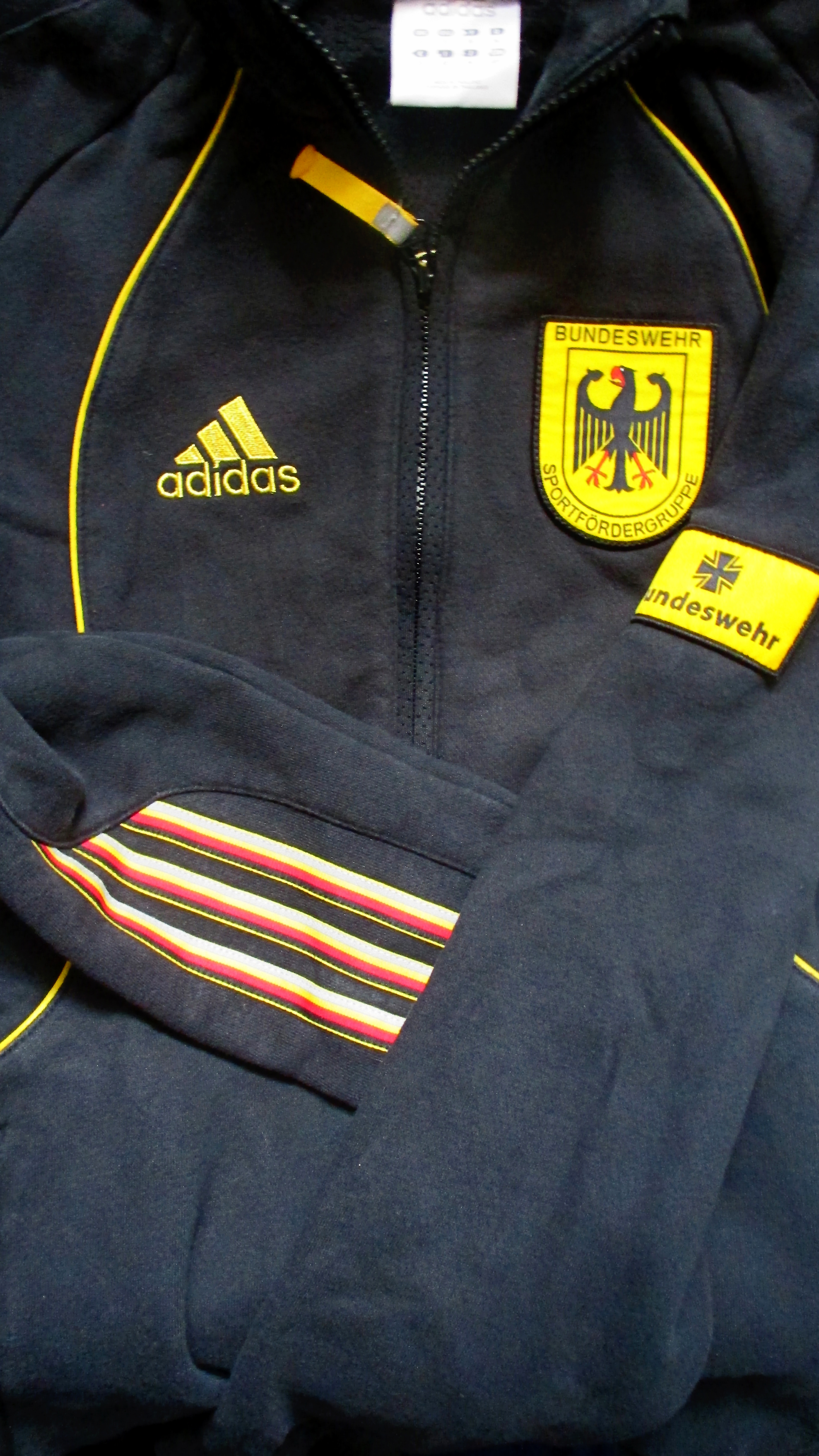 Internal coat of arms of the Bundeswehr (Armed Forces of the Federal Republic of Germany). → Remarks on naming and categorization scheme